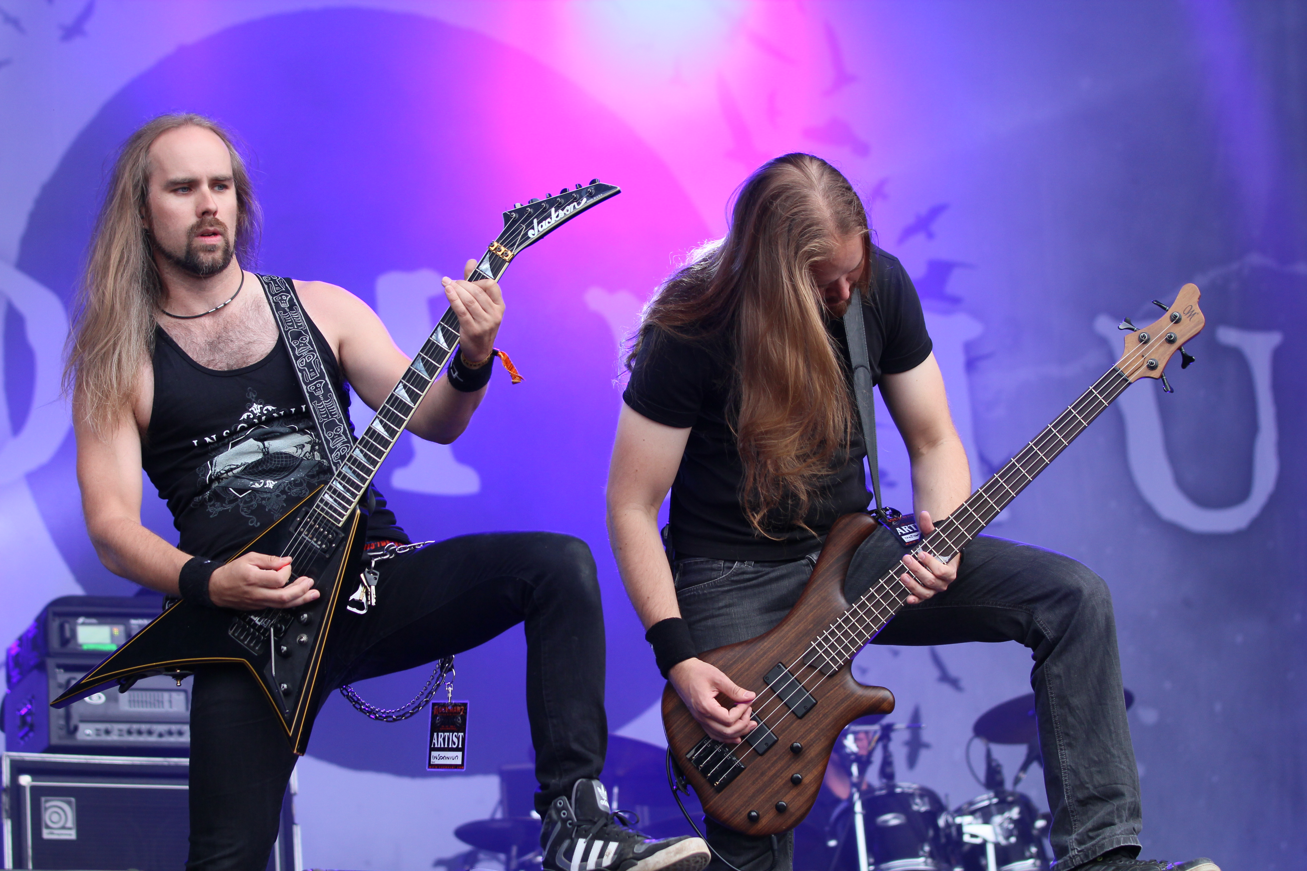 The Finish melodic death metal band Insomnium at the Rockharz Open Air 2014 in Ballenstedt/Germany